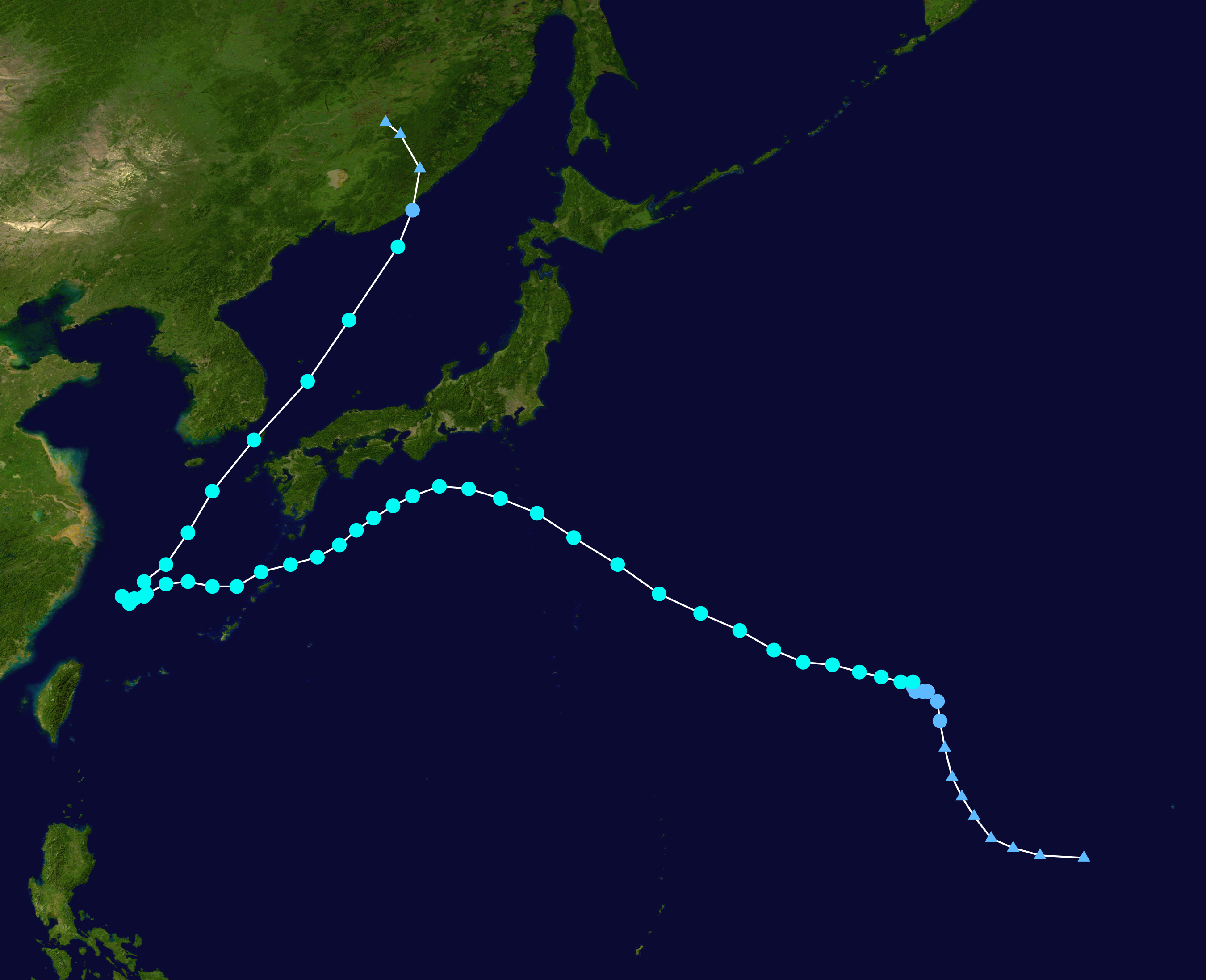 Track map of Tropical Storm Polly of the 1968 Pacific typhoon season. The points show the location of the storm at 6-hour intervals. The colour represents the storm's maximum sustained wind speeds as classified in the Saffir–Simpson hurricane wind scale (see below), and the shape of the data points represent the nature of the storm, according to the legend below. Saffir–Simpson hurricane wind scale Tropical depression≤38 mph≤62 km/h Category 3111–129 mph178–208 km/h Tropical storm39–73 mph63–118 km/h Category 4130–156 mph209–251 km/h Category 174–95 mph119–153 km/h Category 5≥157 mph≥252 km/h Category 296–110 mph154–177 km/h Unknown Storm typeTropical cycloneSubtropical cycloneExtratropical cyclone / Remnant low / Tropical disturbance